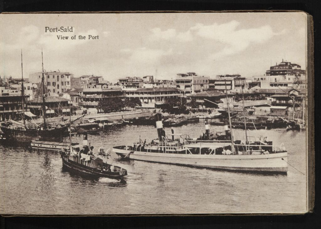 Ships docked at piers on the waterfront, with 3-story buildings in the background